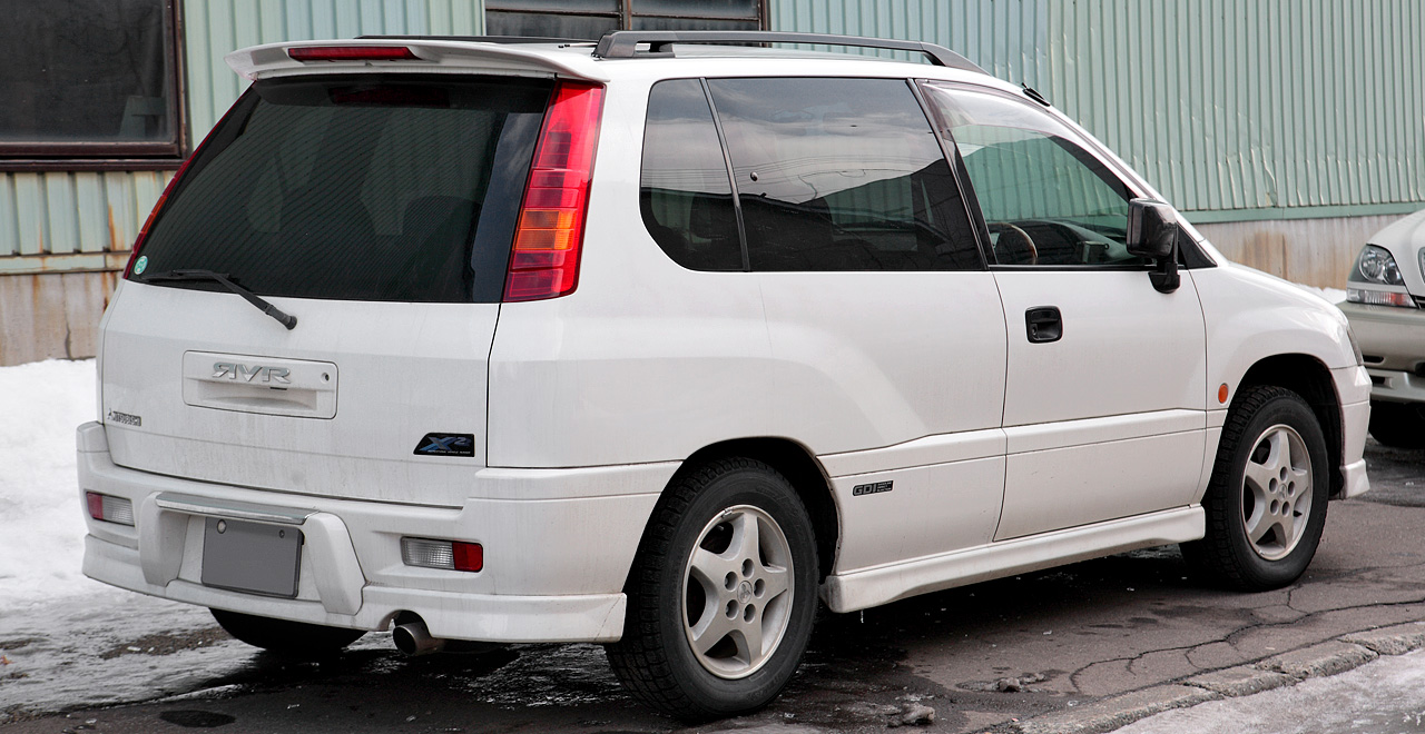 Second generation Mitsubishi RVR X2 ( N61W or N71W )